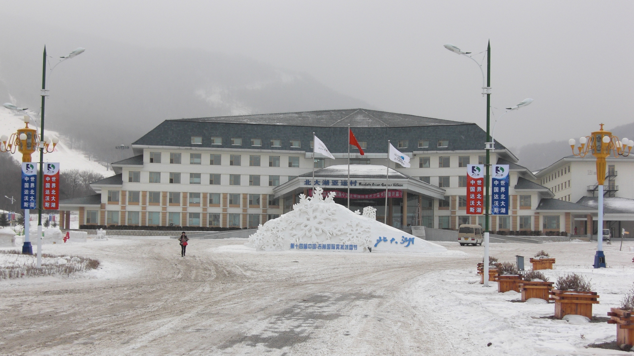 Entrance to Beidahu resort/hotel Dec 29,2008.